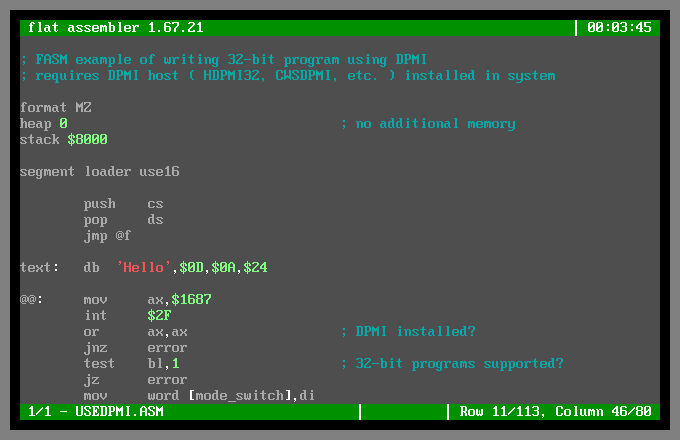 Screenshot of FASM assembler, FASMD DOS version with IDE. Used free software only: FASMD (subject of shot, BSD), FreeDOS (OS, GPL), SNARF (Screenshooter, GPL), PNGOUT (compressor, closed freeware).